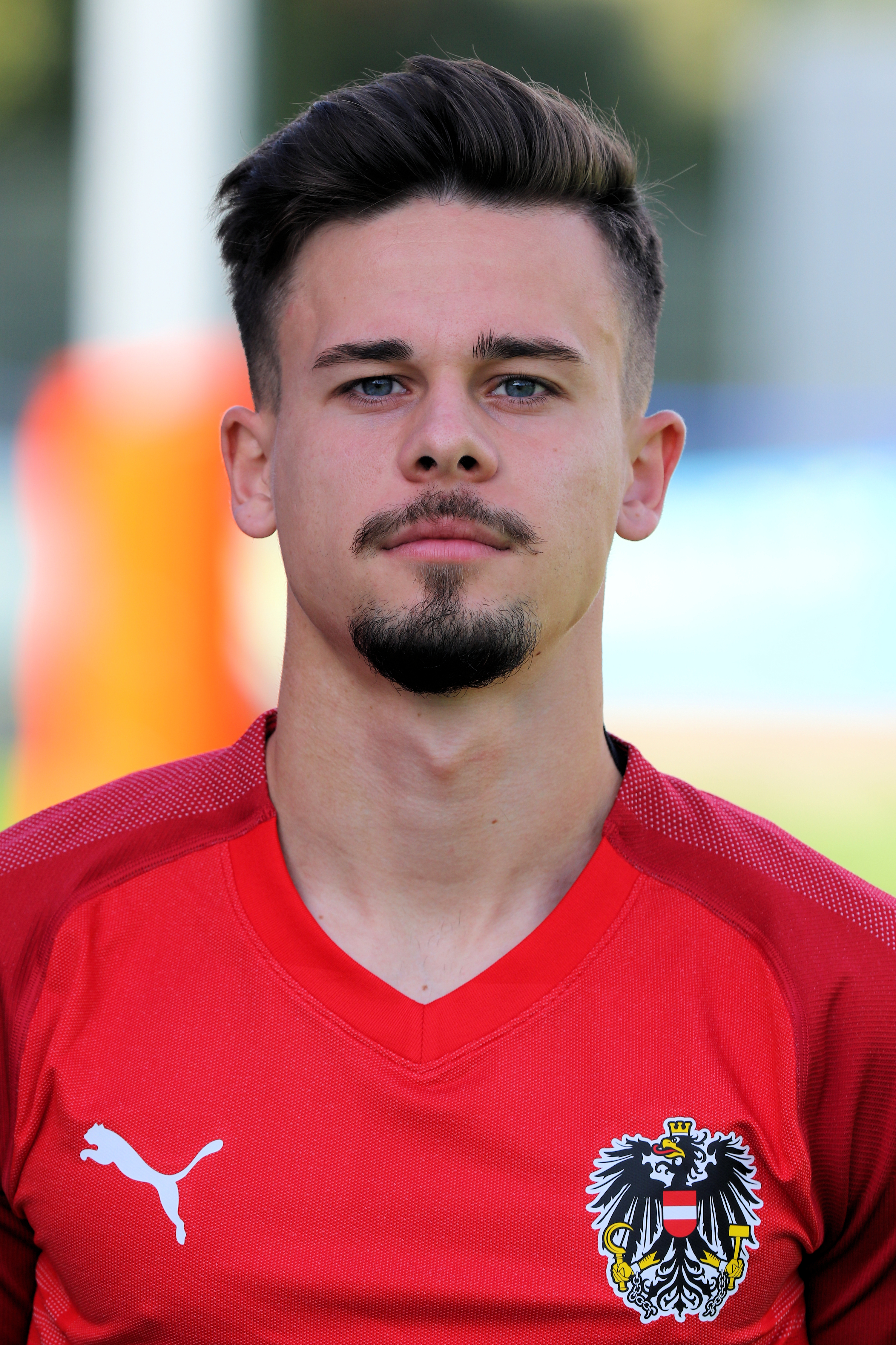 Teamcamp of the Austria national under-21 football team October 2019 in Bad Erlach – The photo shows Christoph Halper (SV Mattersburg).